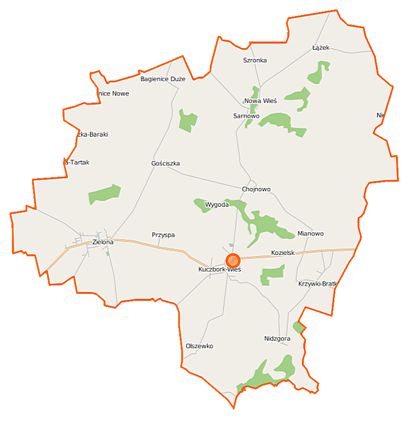 Map of Gmina Kuczbork-Osada, Poland This map of Kuczbork-Osada (gmina) was created from OpenStreetMap project data, collected by the community. This map may be incomplete, and may contain errors. Don't rely solely on it for navigation. Border coordinates53.171319.9192←↕→20.143453.0325